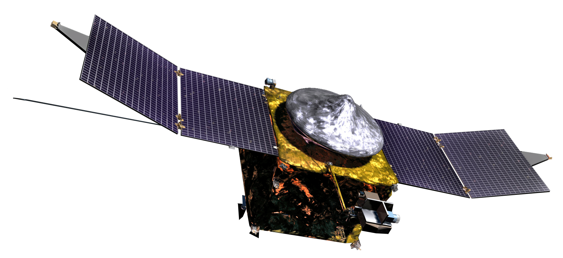 Artist's rendering, from NASA, of the MAVEN spacecraft in its in-flight configuration. Employing the use of a medium-sized spacecraft to orbit the planet mars, the specialised mission studies the chemistry of the planet's atmosphere, searching for evidence of past or present life on Mars and better understanding the planet's atmosphere and its history. The spacecraft also acts as a vital telecommunciations link between Earth and robotic landers / rovers on Mars.